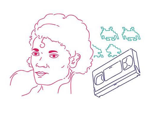 Generation X